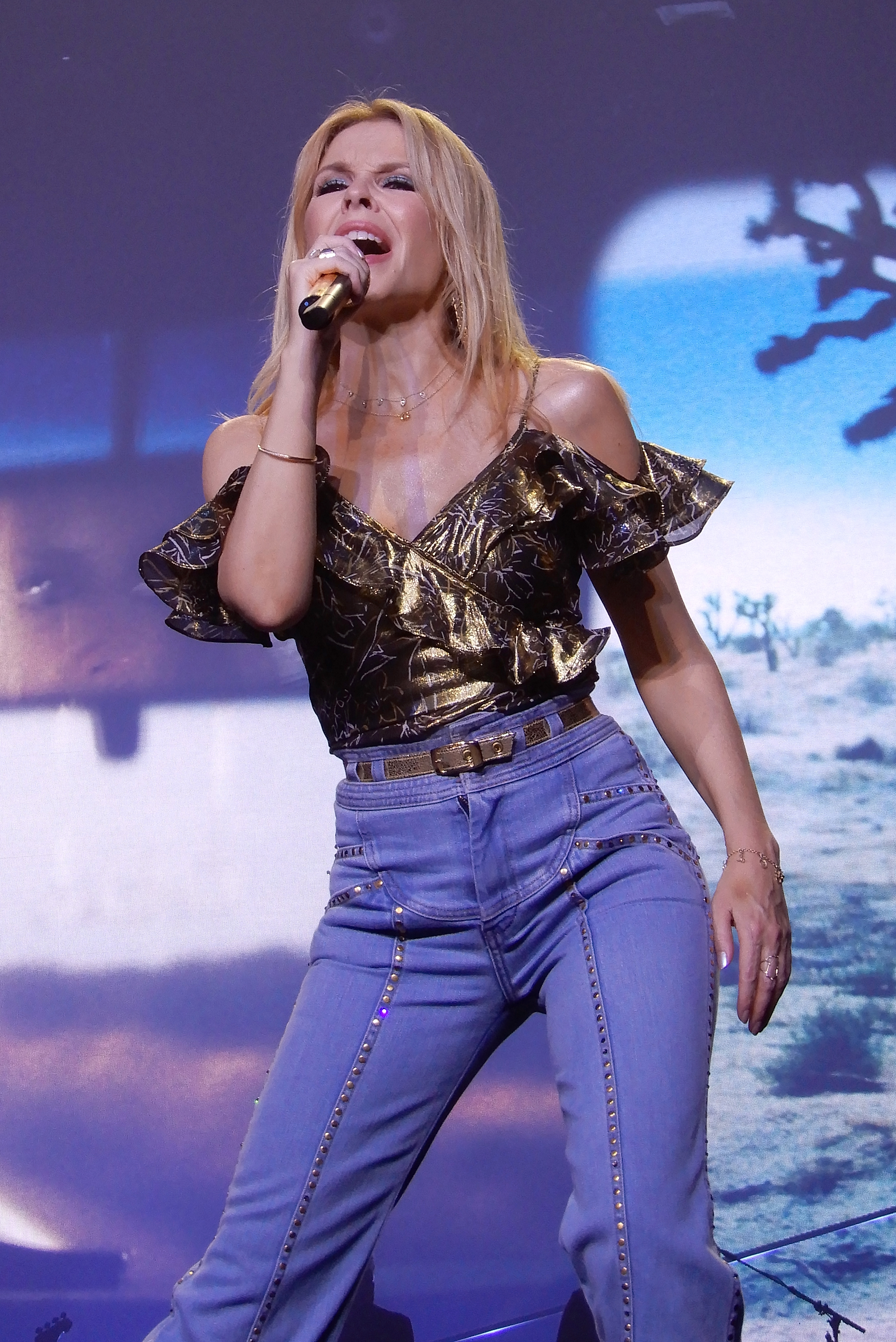 Kylie Minogue - Golden Tour - Motorpoint Arena - Nottingham - 20.09.18. - ( 23 )